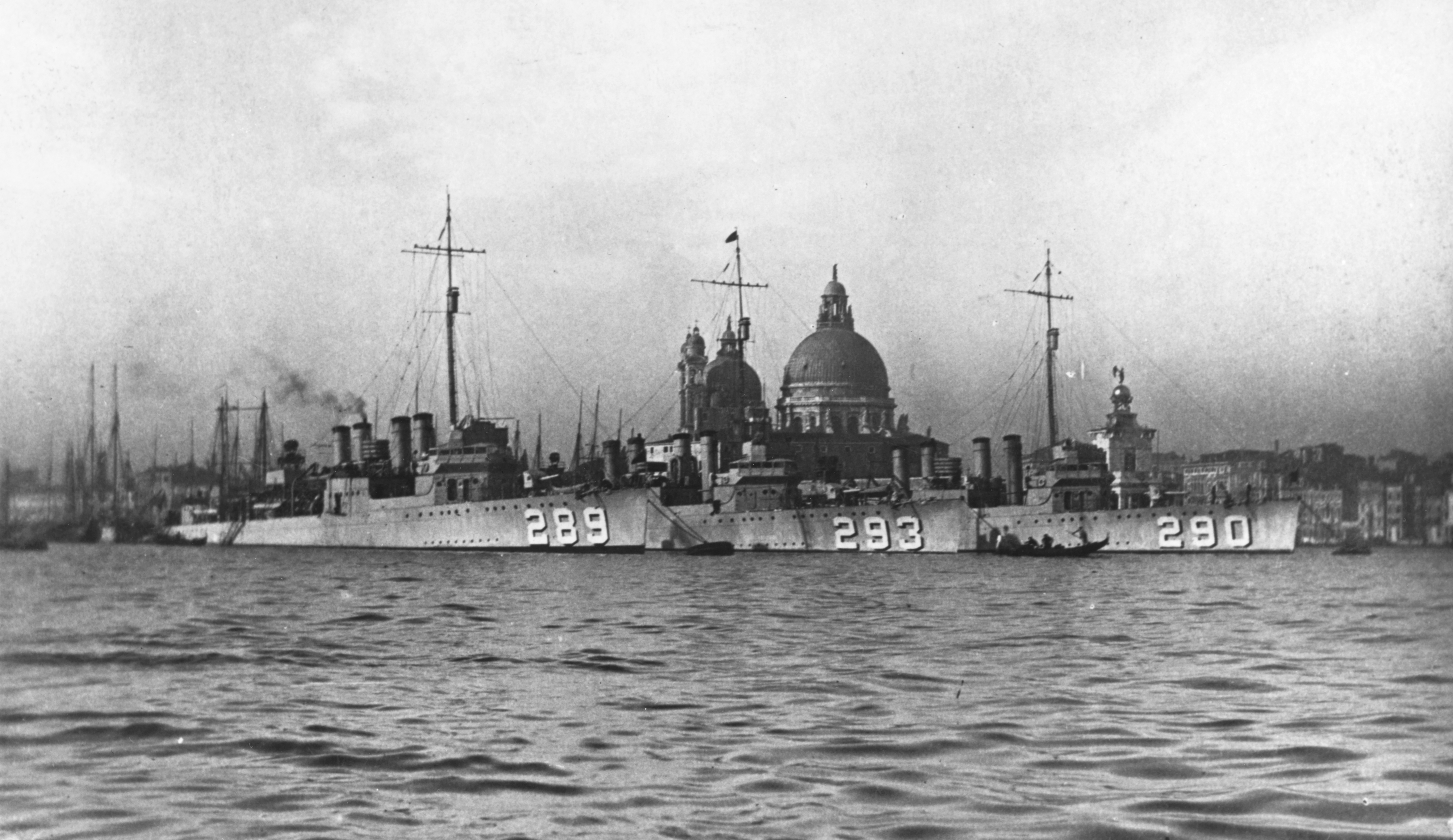 The U.S. Navy destroyers USS Flusser (DD-289), USS Billingsley (DD-293) and USS Dale (DD-290) at Venice, Italy, in 1924-1925.